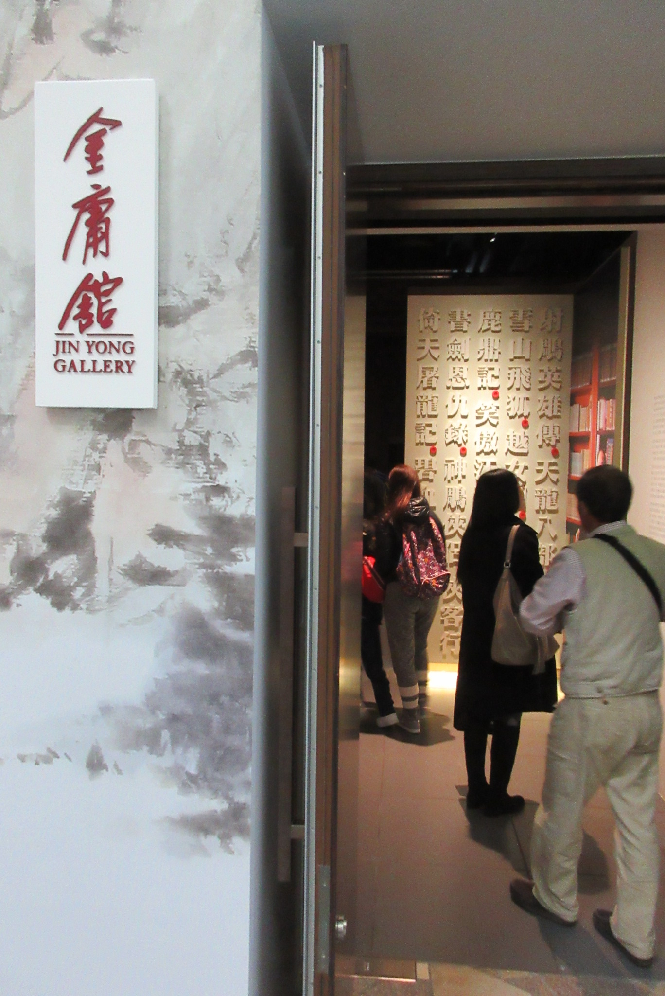 HKHM 沙田 Shatin 香港文化博物館 HK Heritage Museum 金庸展廳館 Jin Yong Gallery name sign in March 2017